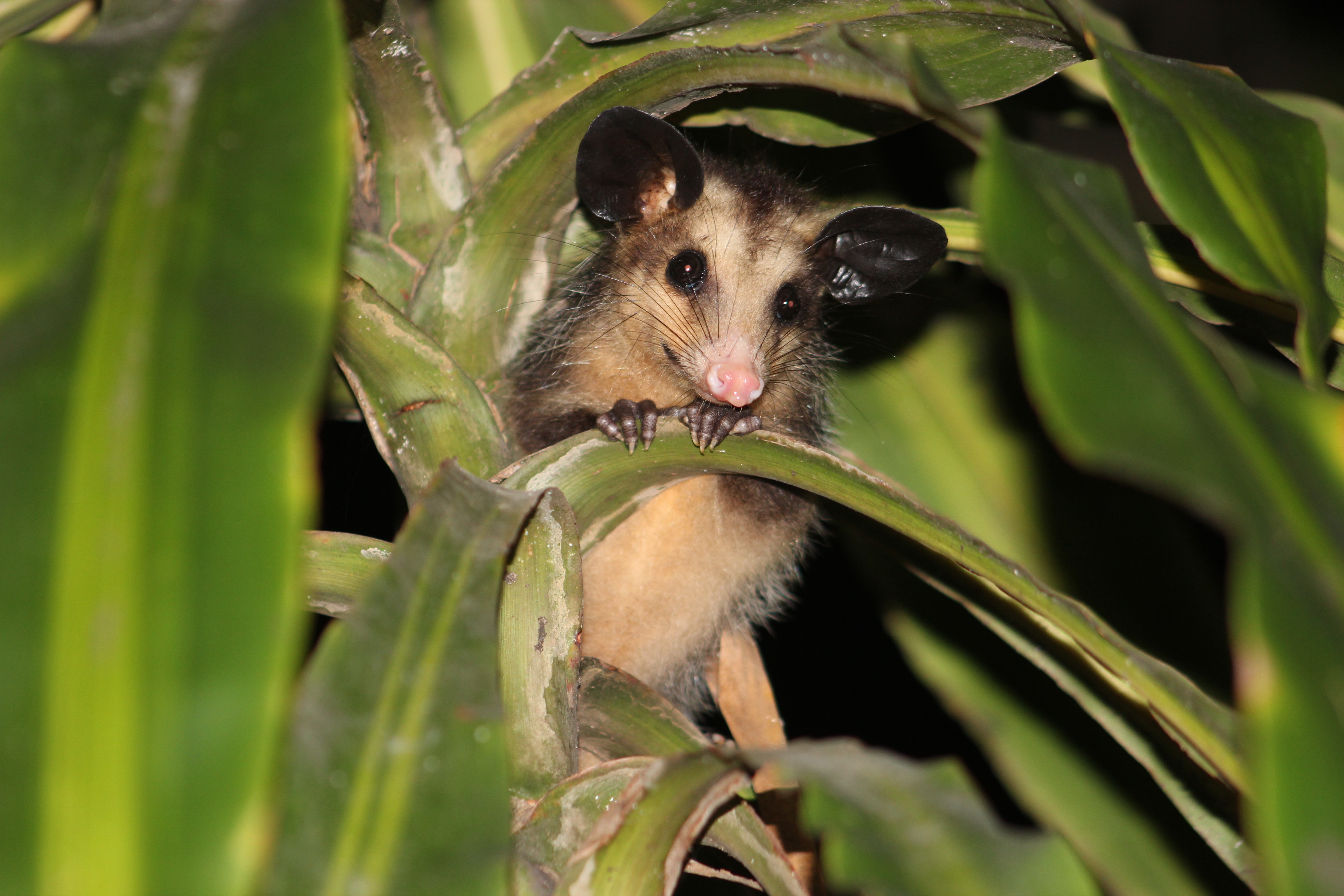 "Didelphis aurita" in Rio de Janeiro, RJ, Brazil